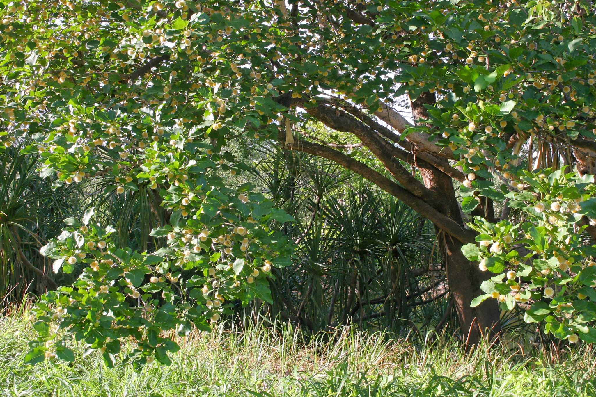 Northern Territory -- Gregory National Park: East Baines River below old Bullita homestead.